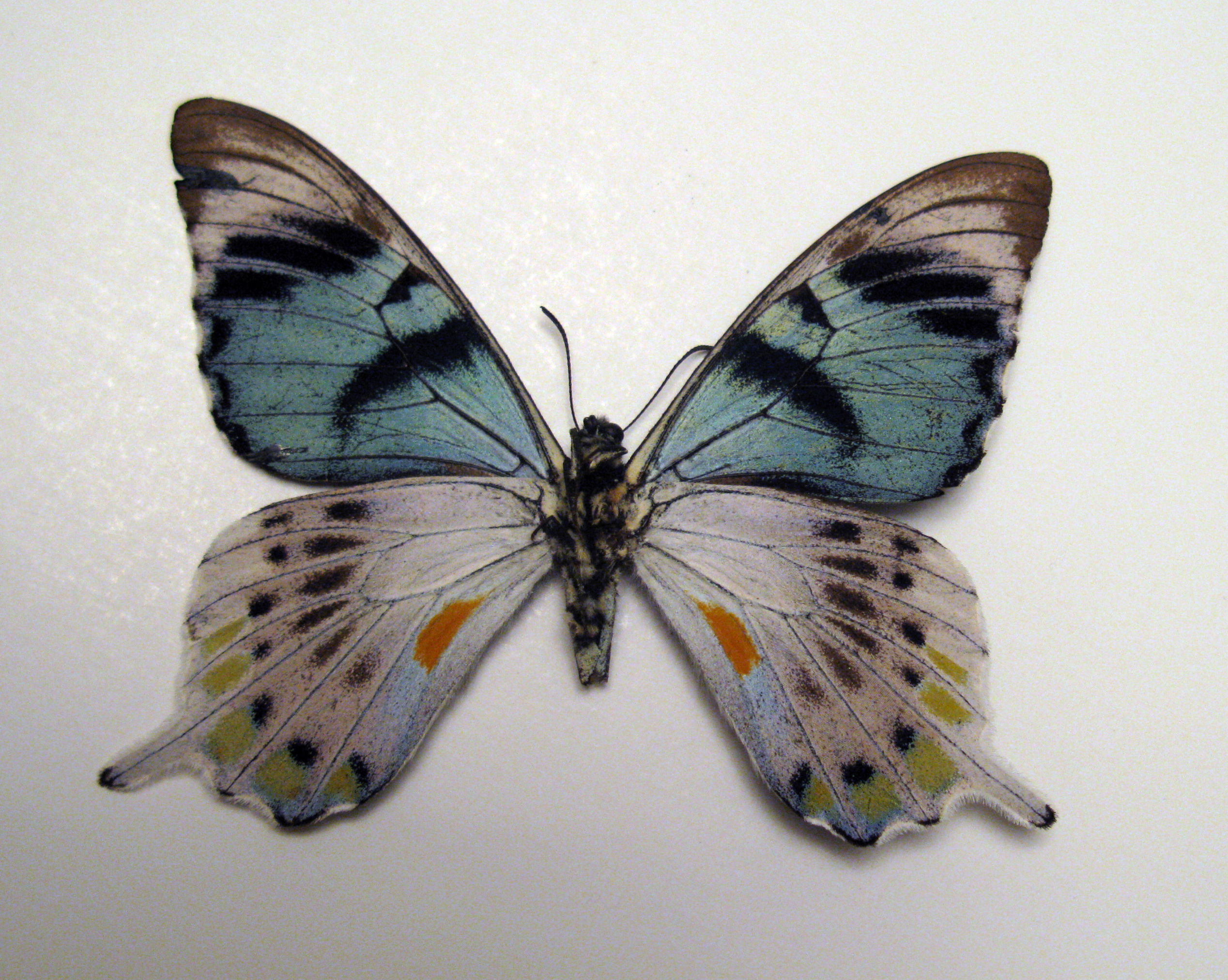 Papilio laglaizei (male verso)